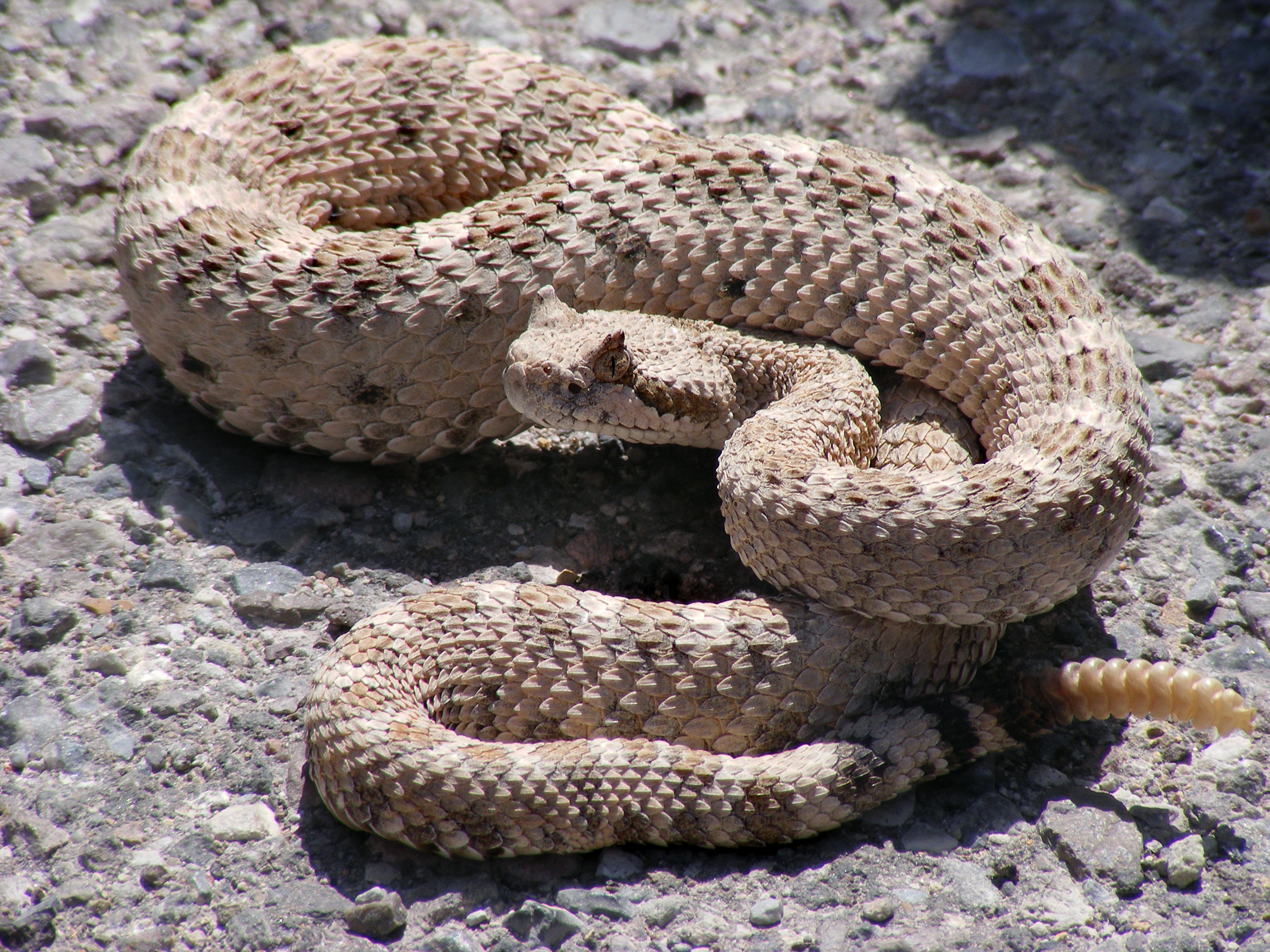 Crotalus cerastes en , Mesquite Springs Campground, Death Valley National Park, California.